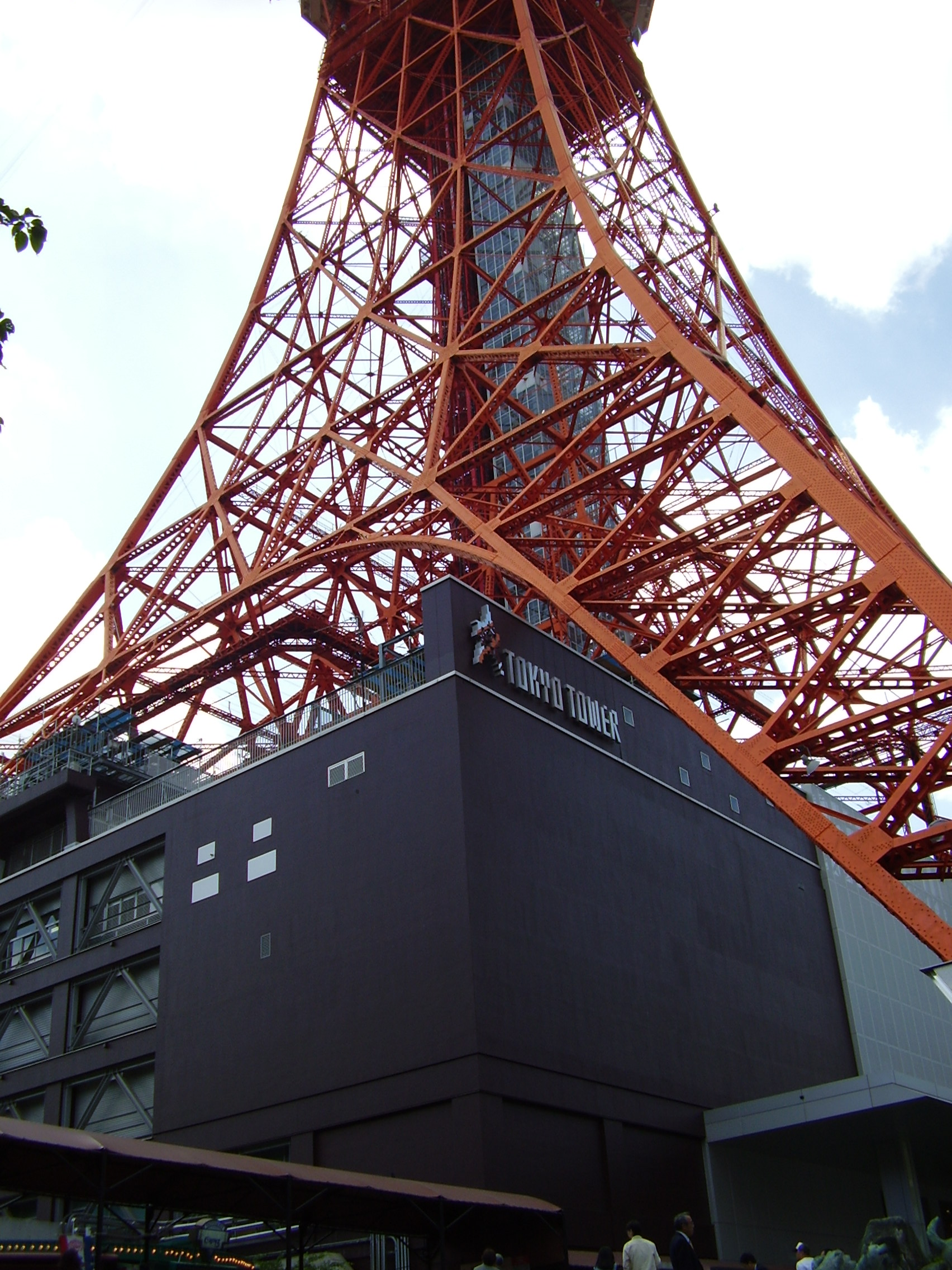 Base of Tokyo Tower in Minato, Tokyo